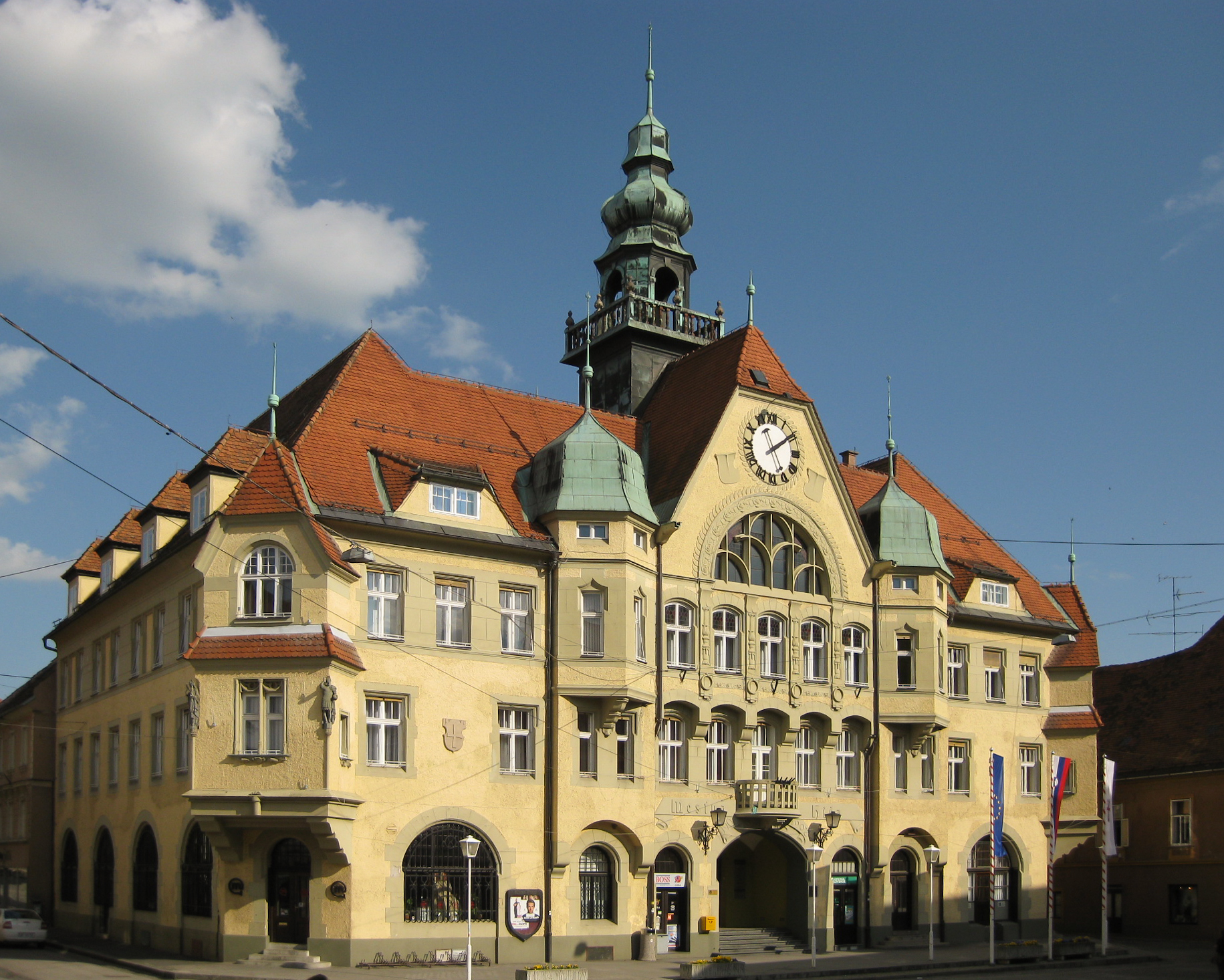 Ptuj Town Hall, Slovenia.